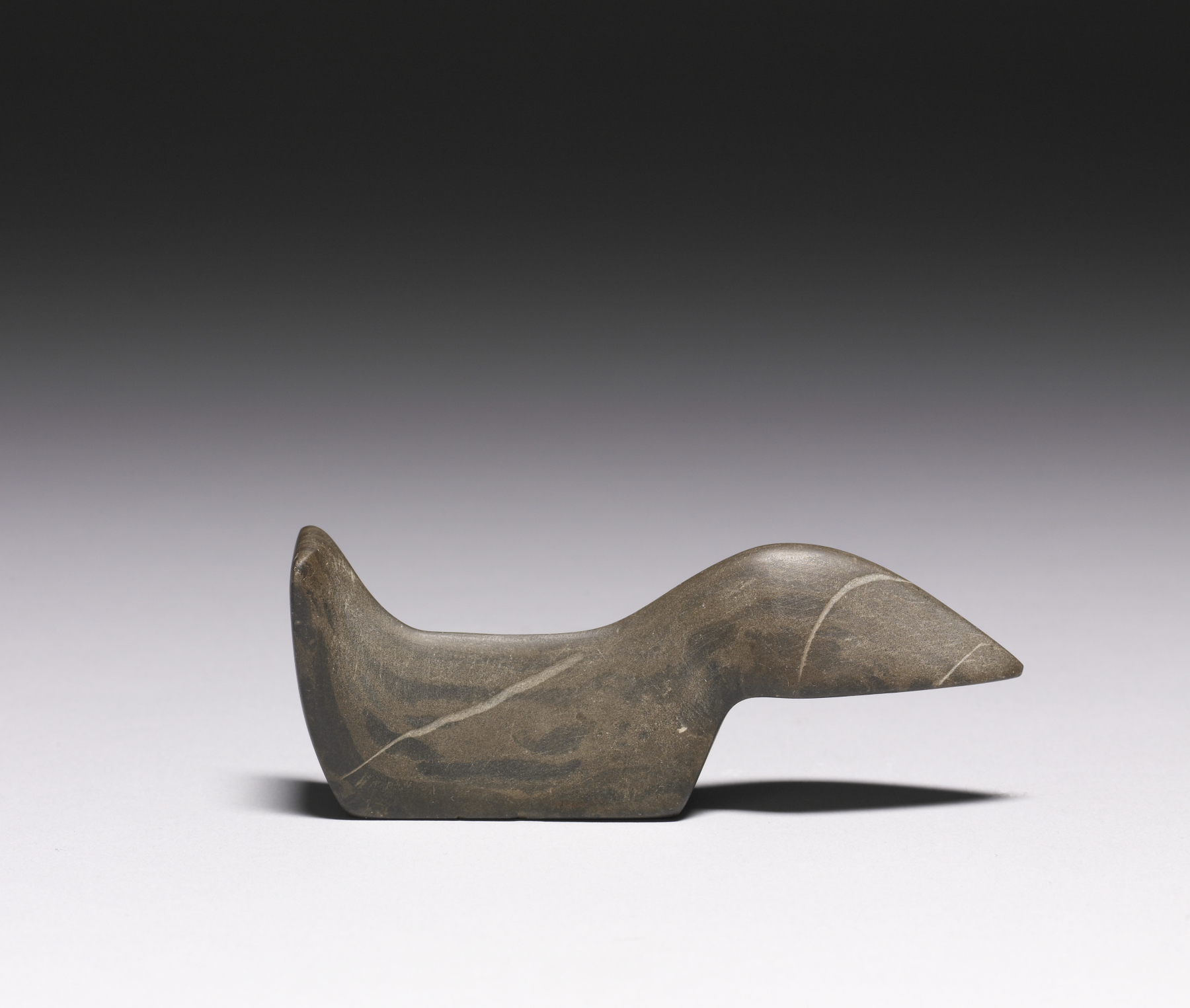 A nearly identical bird form in the British Museum has been classified as a counter weight for an "atlatl," or "throwing stick." This weapon, used widely throughout the Americas, served as a simple extension of the arm, allowing the user to hurl a short spear with greater force. The drilled holes on the underside of the bird form would have been used to attach it to the "atlatl" with twine.